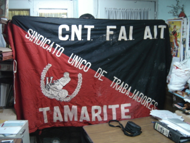 Flag of the Confederación Nacional del Trabajo in Tamarite de Litera. 2,33 m. per 1,27 m.